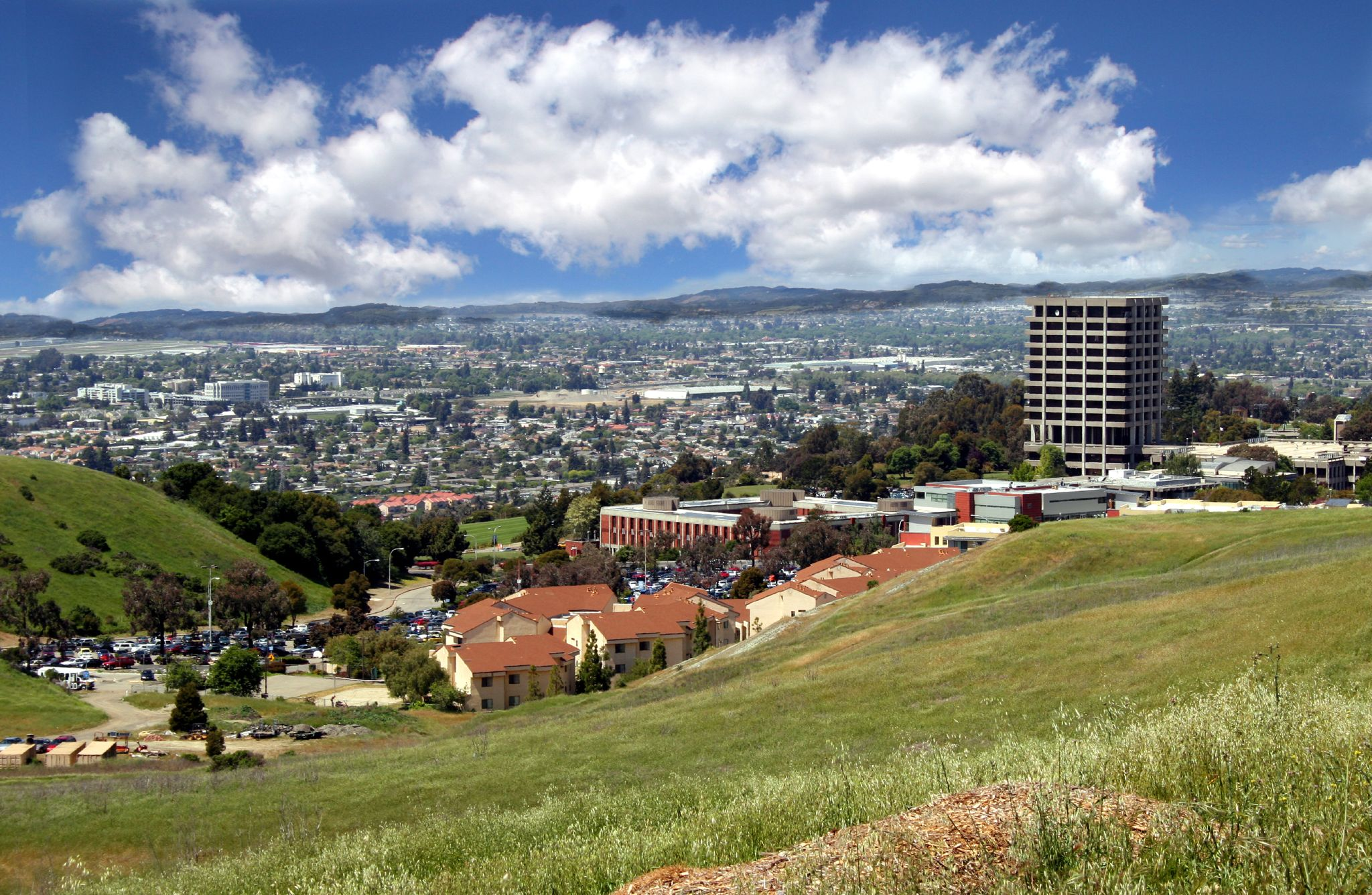 CSUEB